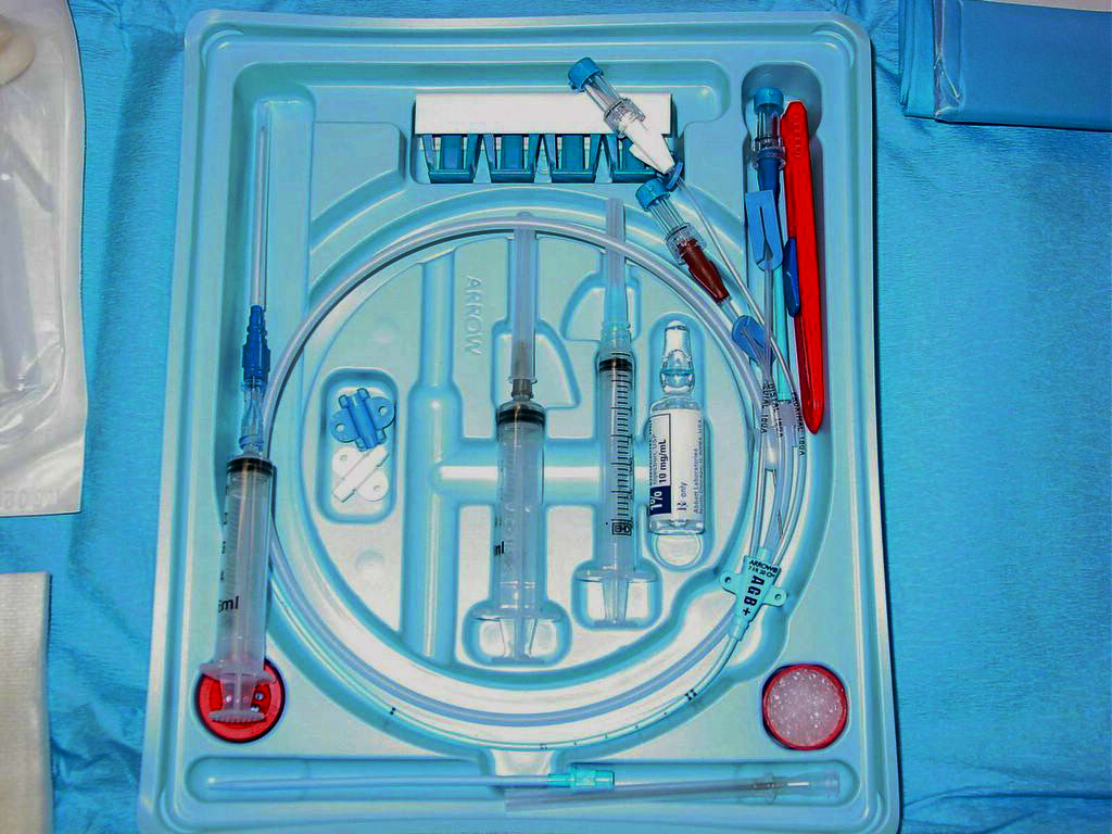 Central venous catheter equipment